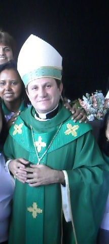 Magnus Henrique Lopes, bishop of Salgueiro in Brazil